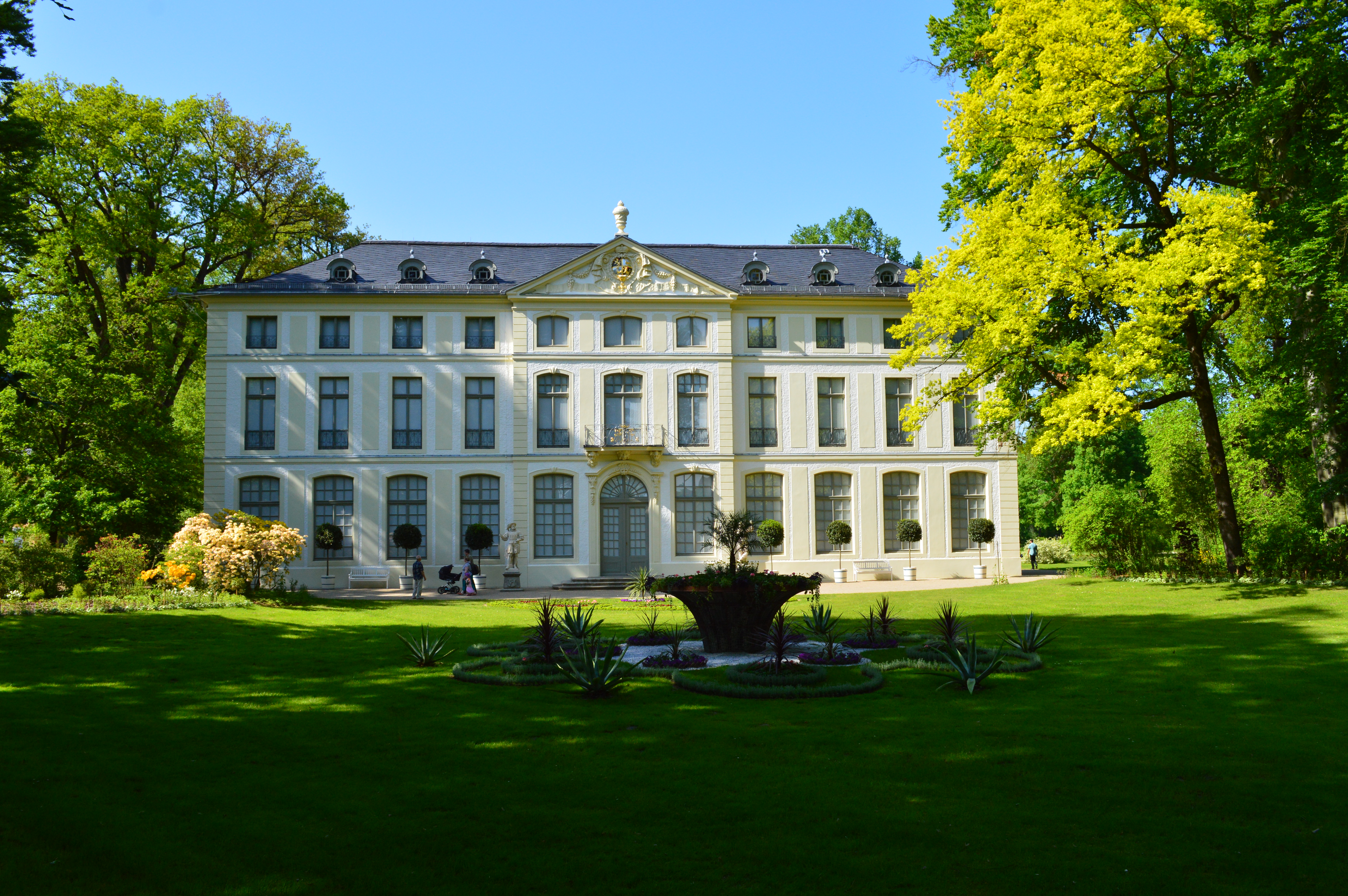 Greiz, Thuringia, Germany, on Whitsunday 2013: Sommerpalais (Summer Palace) at Greizer Park; photographed two weeks before the June 2013 flood